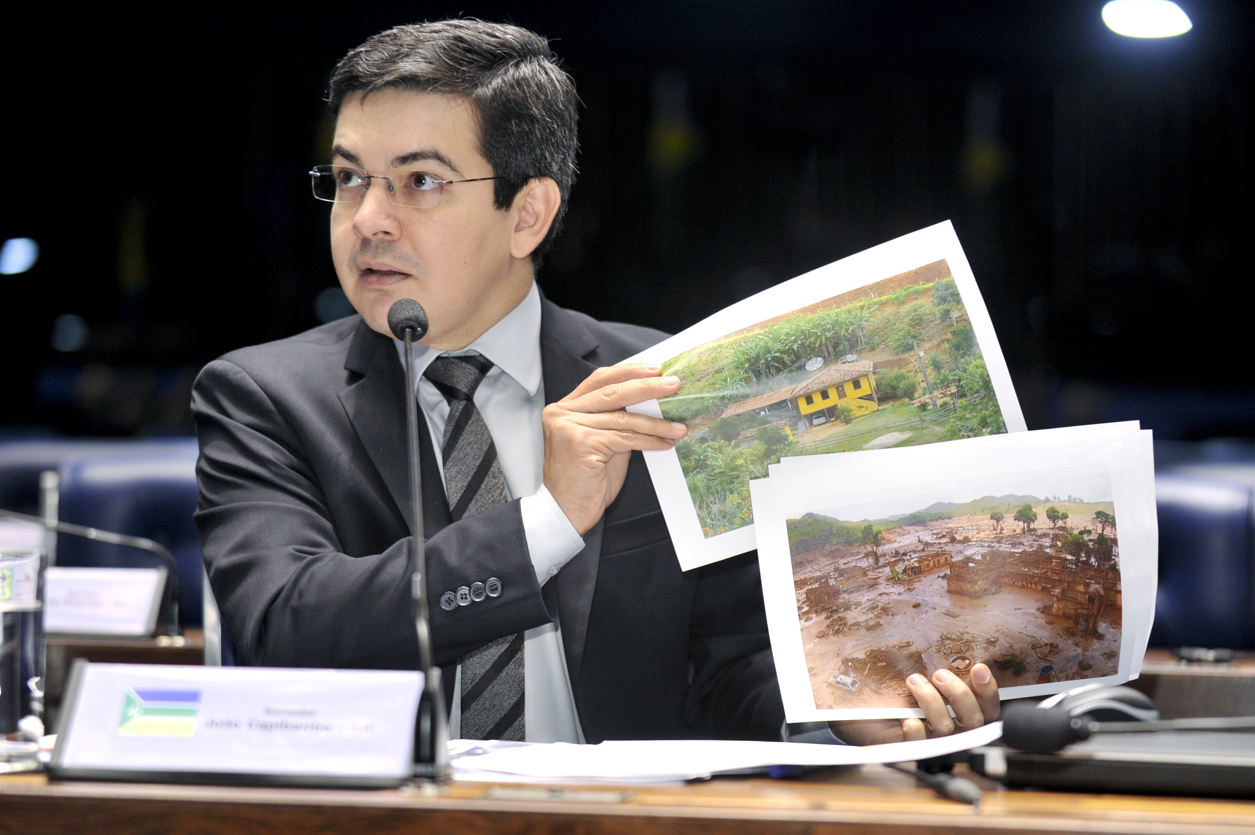 Plenário do Senado Federal durante sessão não deliberativa.Em pronunciamento, senador Randolfe Rodrigues (Rede-AP) mostra imagens via satélite, o antes e depois, do distrito de Mariana (MG), Bento Rodrigues, soterrado pela lama.Foto: Waldemir Barreto/Agência Senado